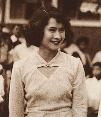 Galyani Vadhana,the princess of Naradhiwas is a daughter of Prince Mahidol Adulyadej and Princess Srinagarindra